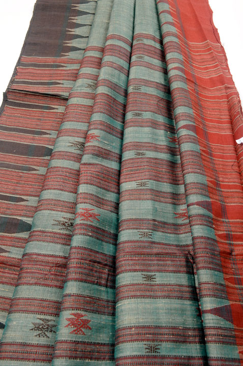 Habaspuri a traditional handloom from Kalahandi / Odisha/ India